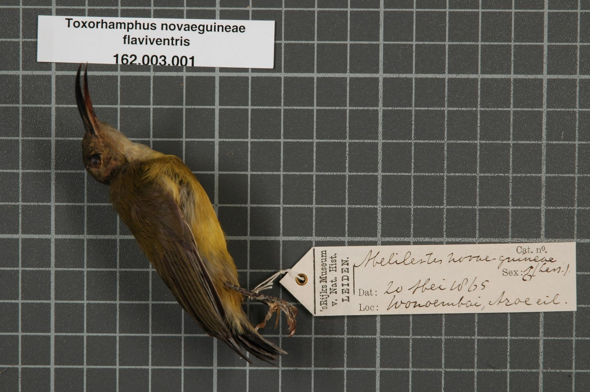 Toxorhamphus novaeguineae flaviventris (Rothschild & Hartert, 1911)